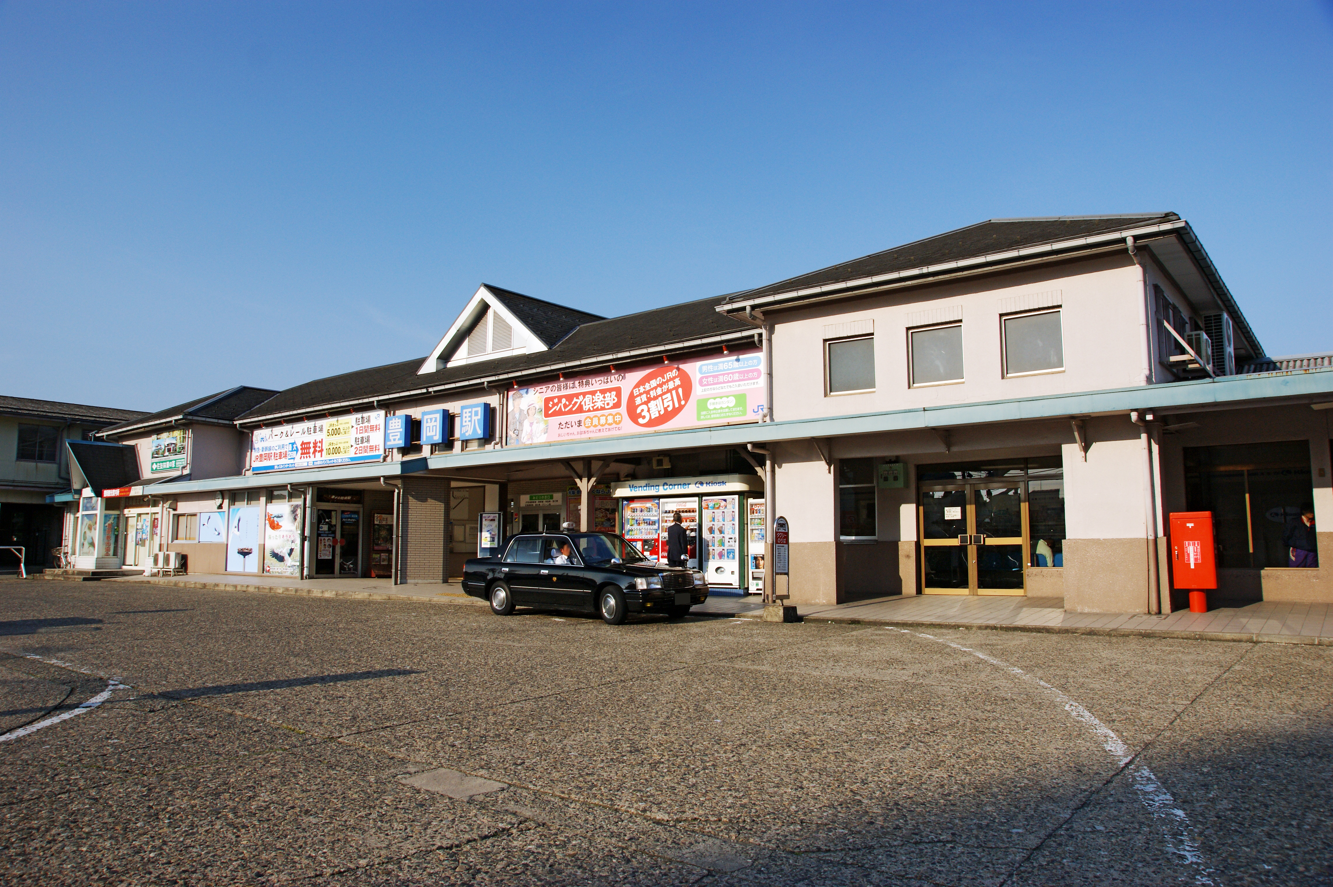 Toyooka Station in Toyooka, Hyogo prefecture, Japan